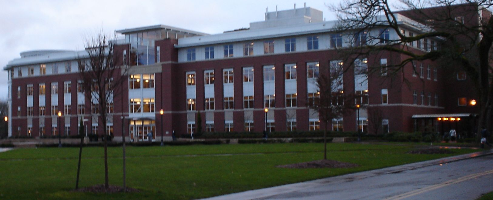 Photo taken 12 January 2005.